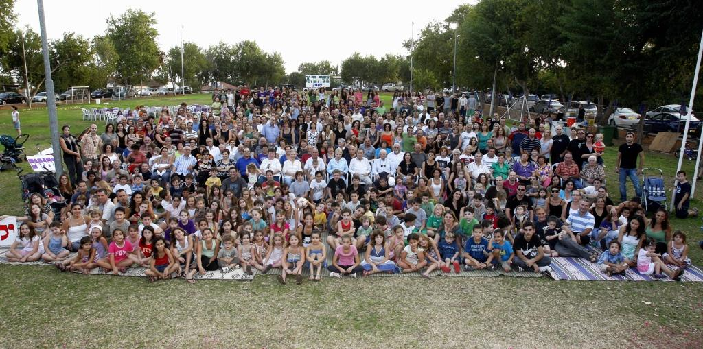 Residents of Moshav Tsofit 2009 , Settlements in Israel